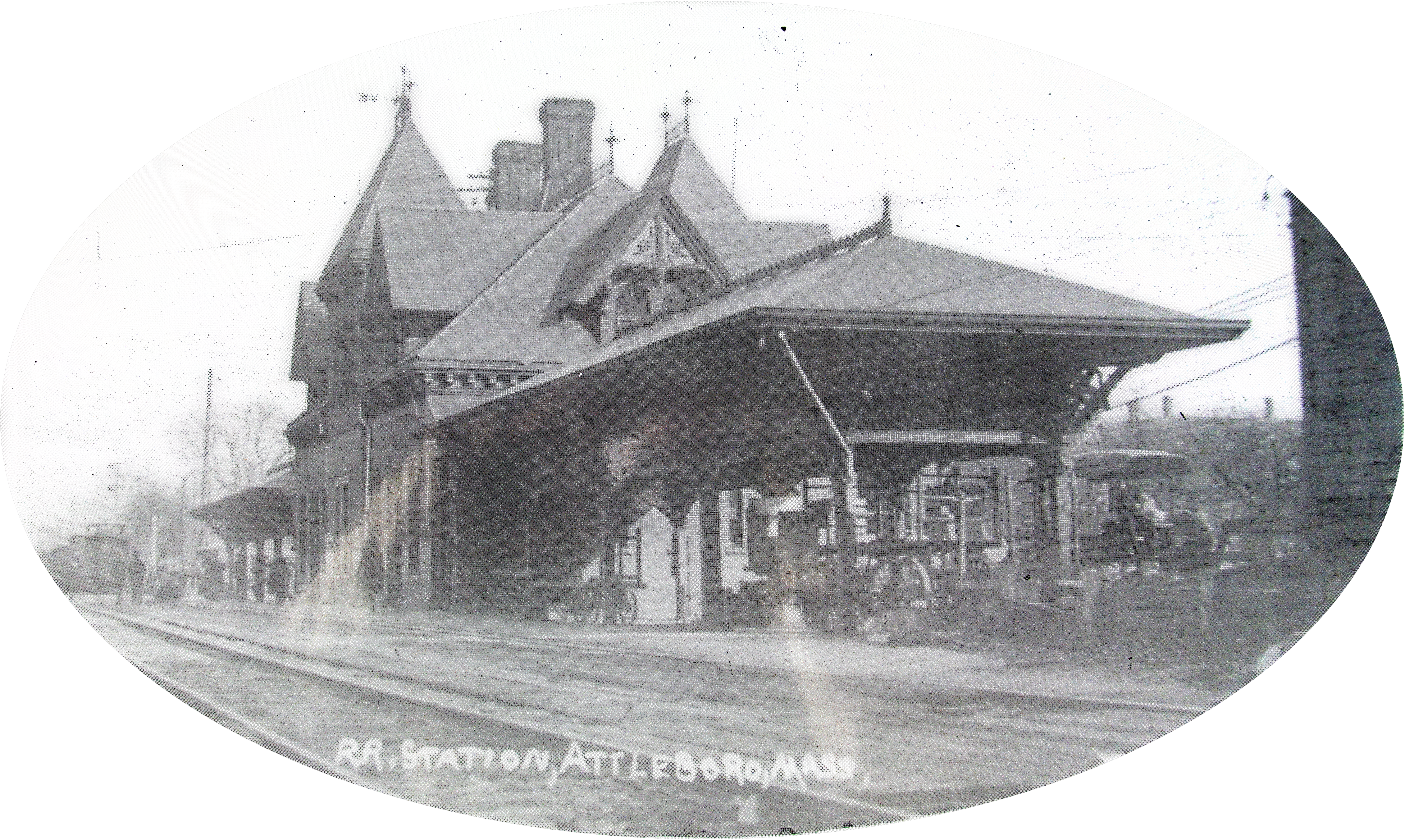 Original Attleboro, Massachusetts station on a May 1906 postcard. The station was replaced by the modern building later that year.